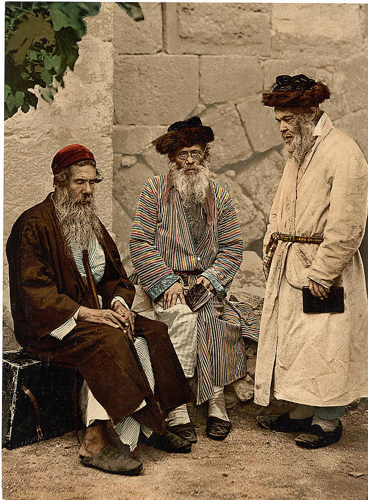 Photochrom of Jews in Jerusalem, Holy Land in the 1890's